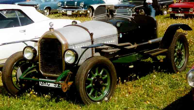 Humber 14/40 HP 2-Seater Sports 1929